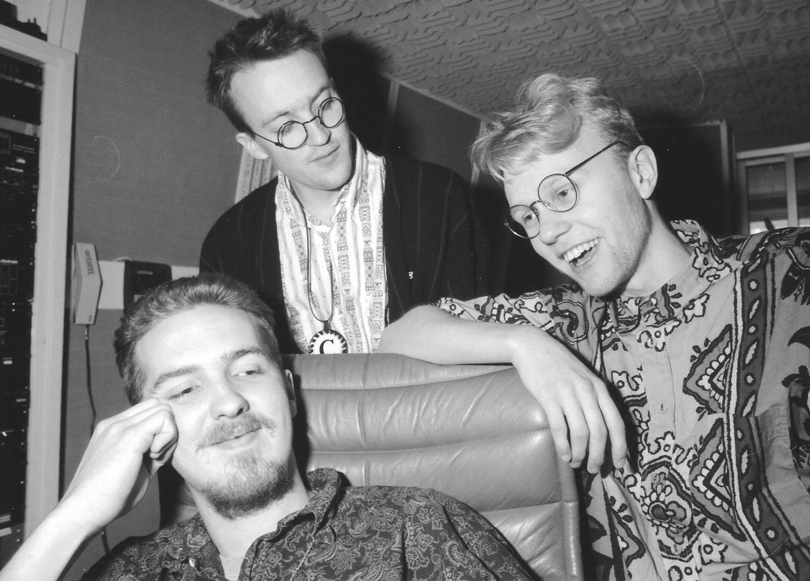 I hereby assert that I am the creator and/or sole owner of the exclusive copyright of [hela filnamnet/filnamnen så som de laddas upp på Commons]. The text of this web page is available for modification and reuse under the terms of the Creative Commons Attribute Share-Alike, version 3,0 and earlier. I acknowledge that I grant anyone the right to use the work in a commercial product, and to modify it according to their needs, as long as they abide by the terms of the license and any other applicable laws. I am aware that I always retain copyright of my work, and retain the right to be attributed in accordance with the license chosen. Modifications others make to the work will not be attributed to me. I am aware that the free license only concerns copyright, and I reserve the option to take action against anyone who uses this work in a libelous way, or in violation of personality rights, trademark restrictions, etc. I acknowledge that I cannot withdraw this agreement, and that the work may or may not be kept permanently on a Wikimedia project. Phtotgrapher: Wille Crafoord